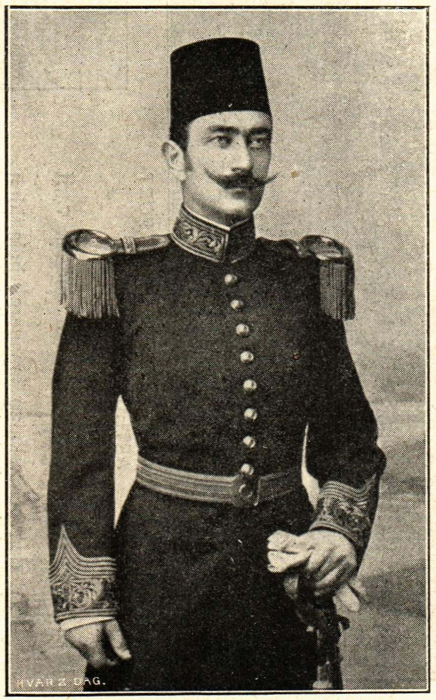 Wiktor (Viktor) Unander.